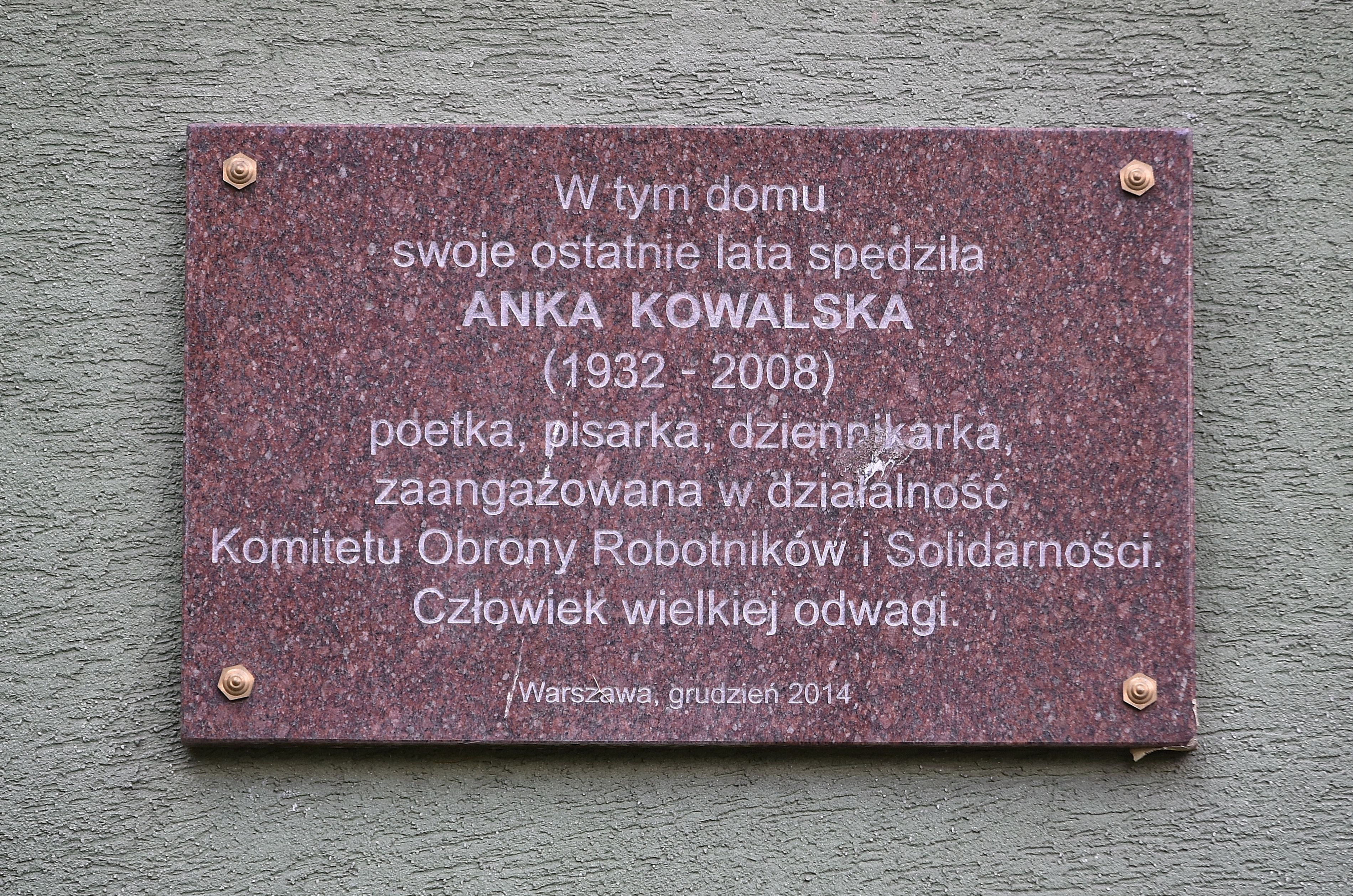 Plaque in memory of Anka Kowalska a 201 Czerniakowska Street in Warsaw